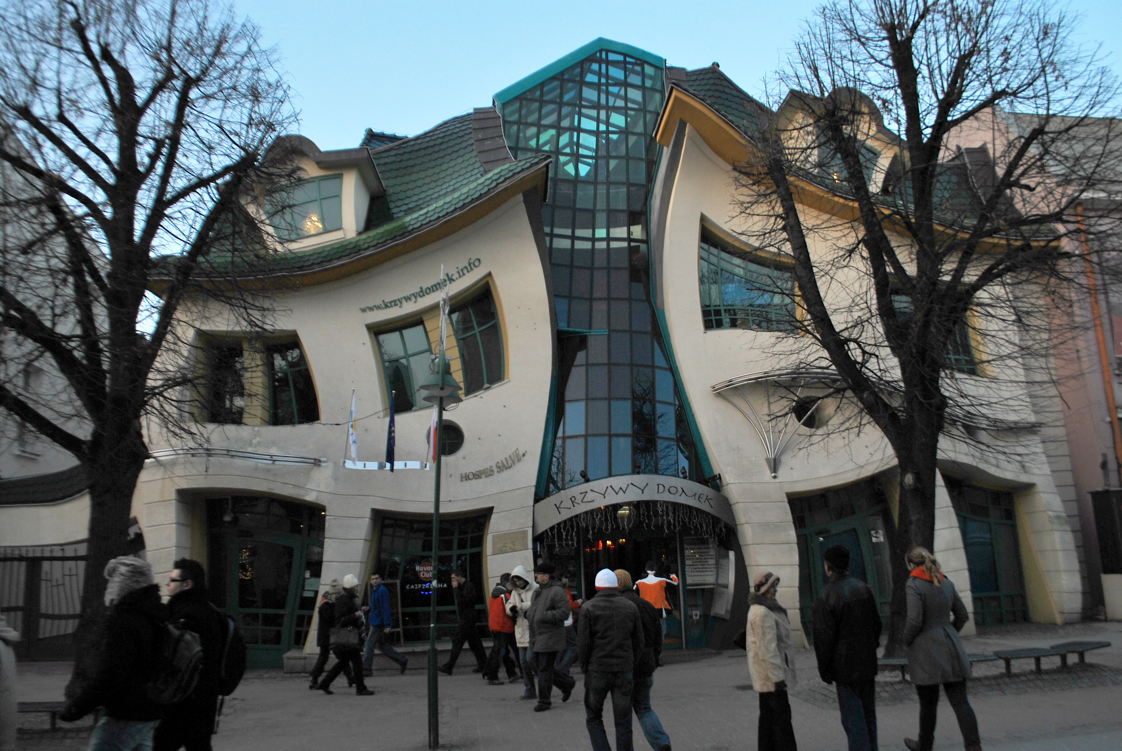 This crazy looking building is situated in Sopot, at Bohaterów Monte Cassino Street. The architecture of the building is based on drawings by Jan Marcin Szancer and Per Dahlberg. There is also unusual roof covered with sheet metal with enamel roof tiles coloured with green shades, see blue and Parishian blue, which gives the illusion of dragon scales. Pic used under Creative Commons License here